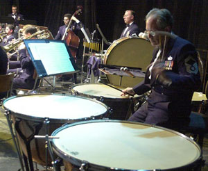 Timpanist in the United States Air Forces in Europe Band.